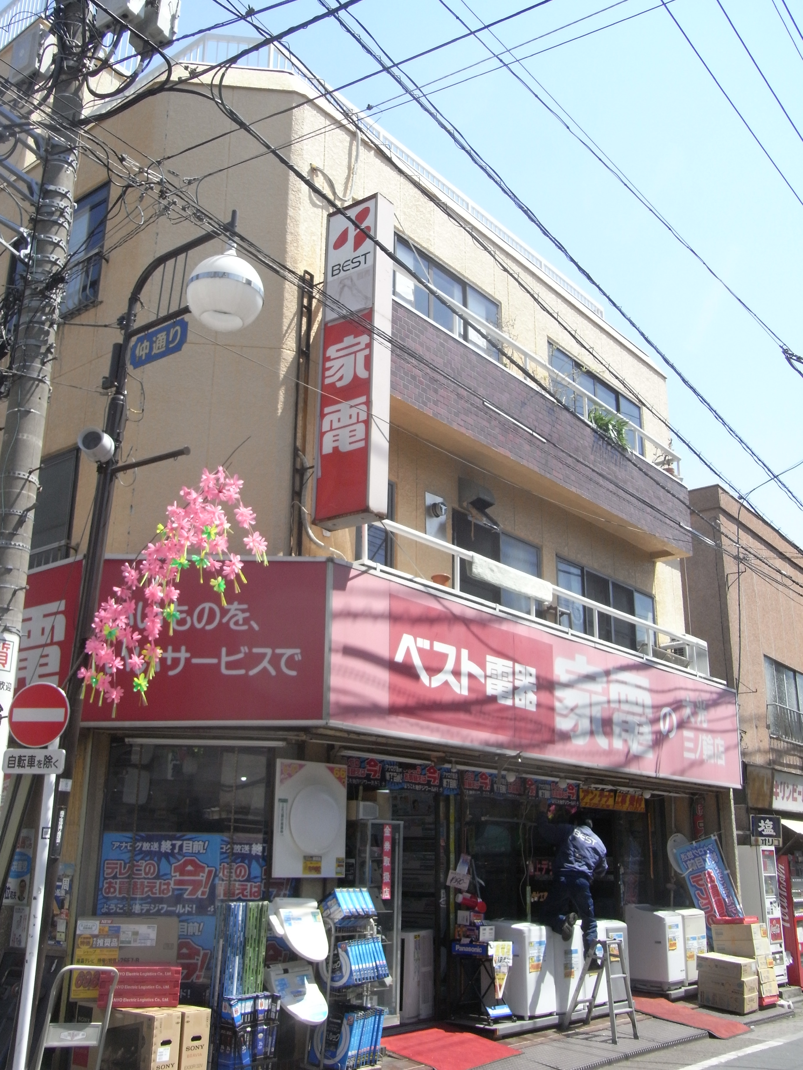 Best Denki Minowa Store (MinamiSenju, Arakawa-ku, Tokyo)